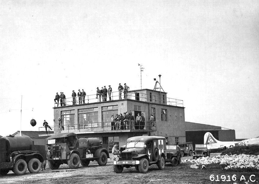 The 303rd Bomb Group's control tower at Molesworth, Huntingdonshire, England (Station 107) on September 28,1944. Note Lockheed/Vega B-17G-60-VE Fortress 44-8328 303d Bombardment Group, 359th Bombardment Squadron (Code BN) parked next to tower